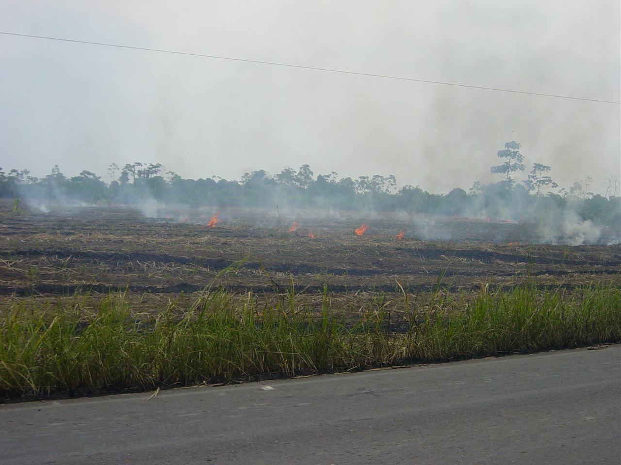 Burning sugar-cane fields near Milagro, Ecuador